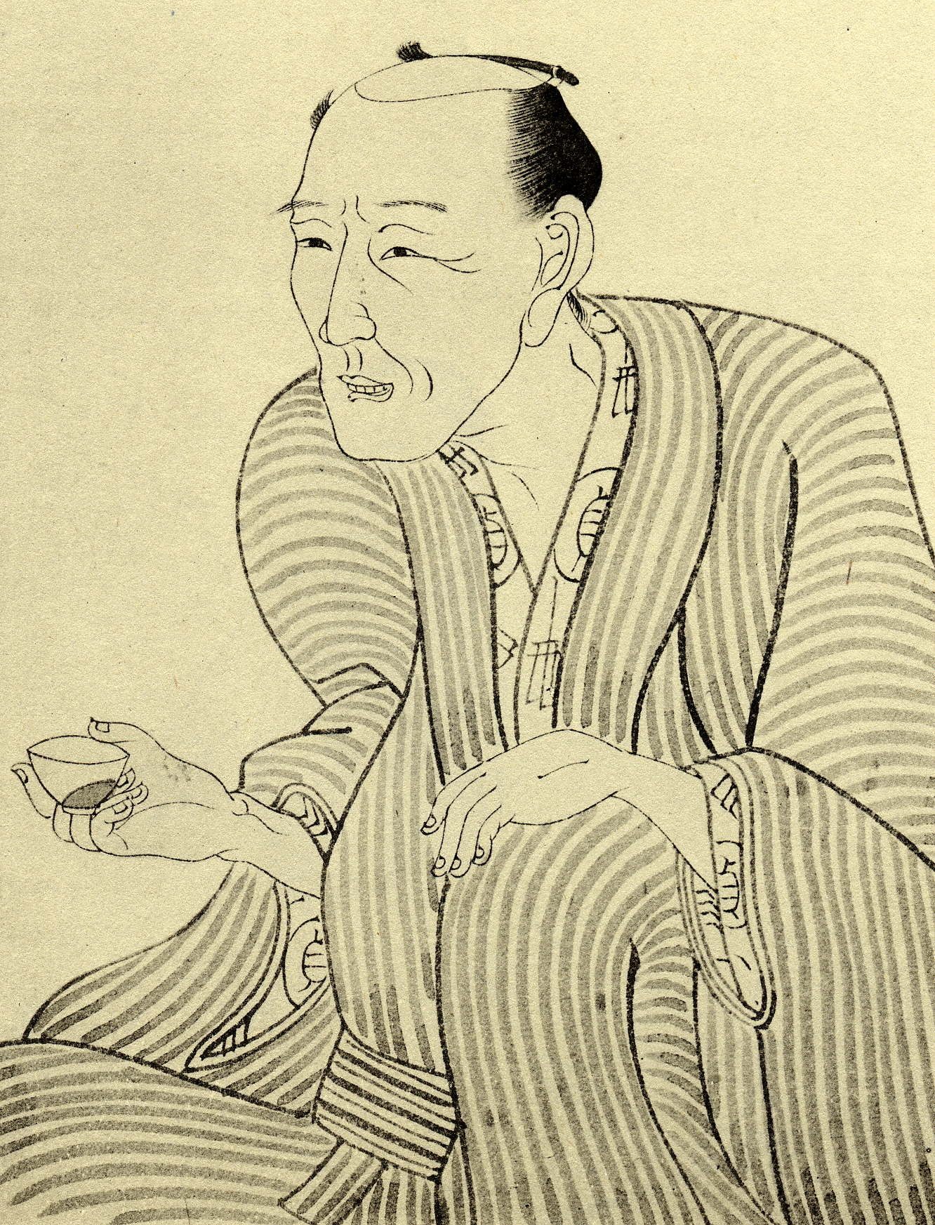 Jippensha Ikku (十返舎 一九) was a Japanese writer in the late Edo period.